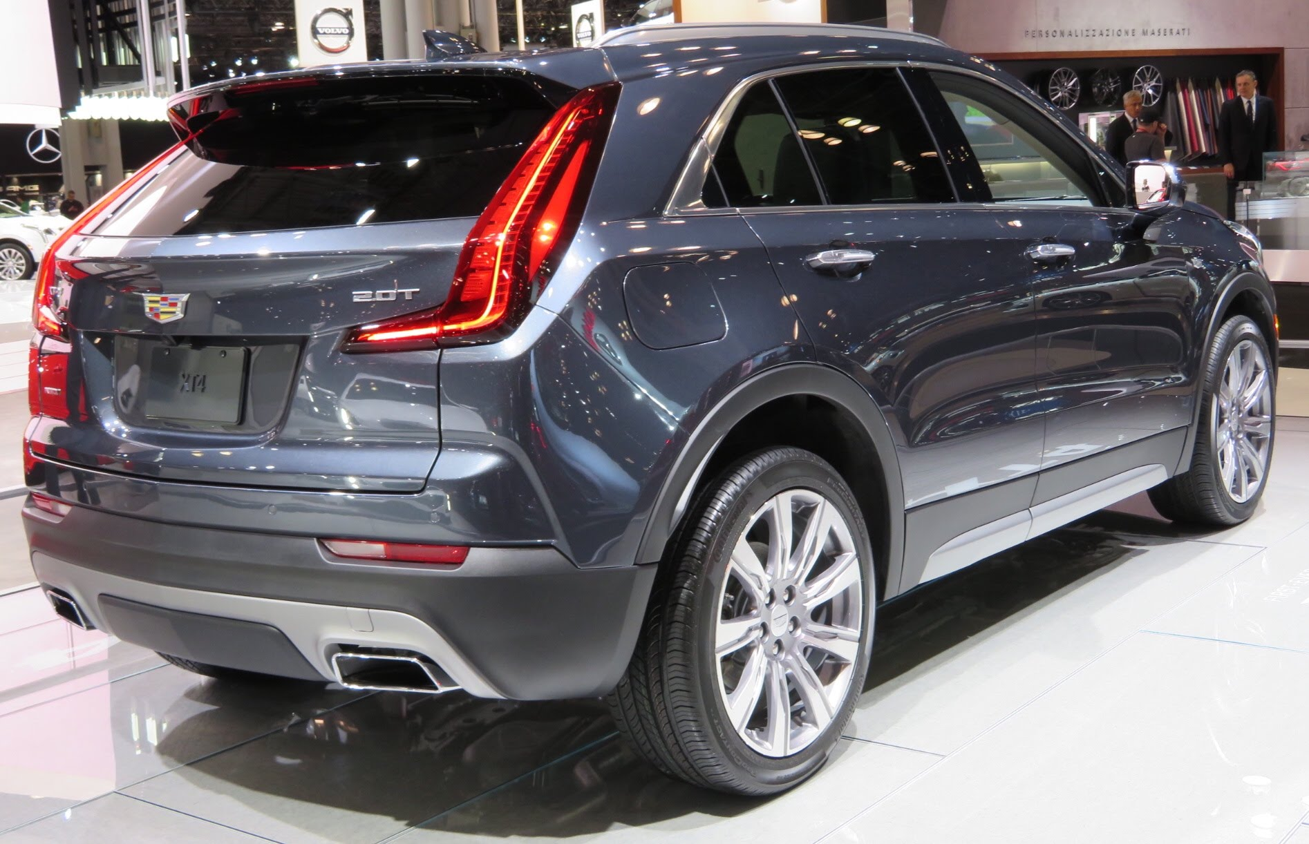 In New York International Auto Show, at Manhattan, New York